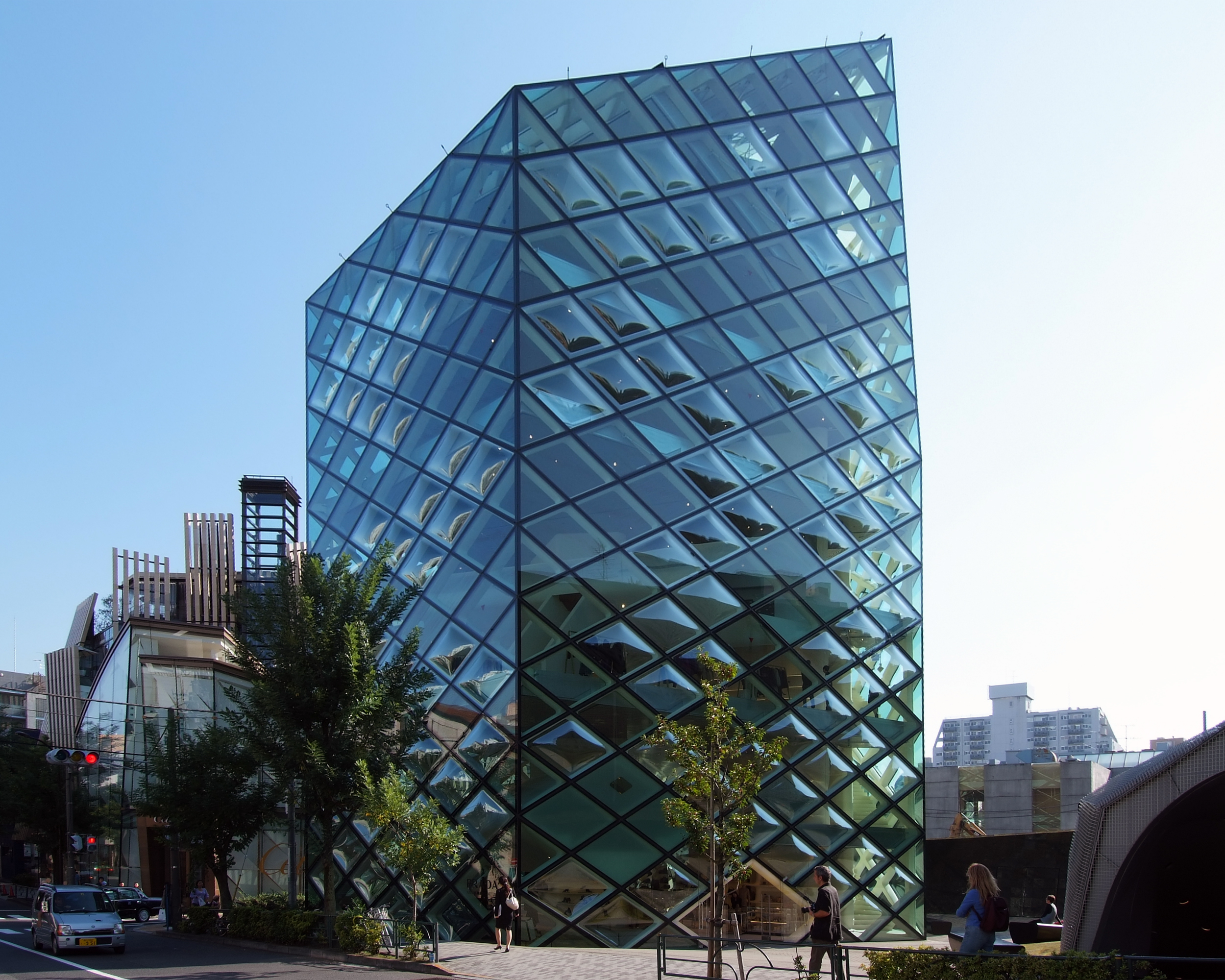 Prada Store in Tokyo. Architect : Herzog & de Meuron